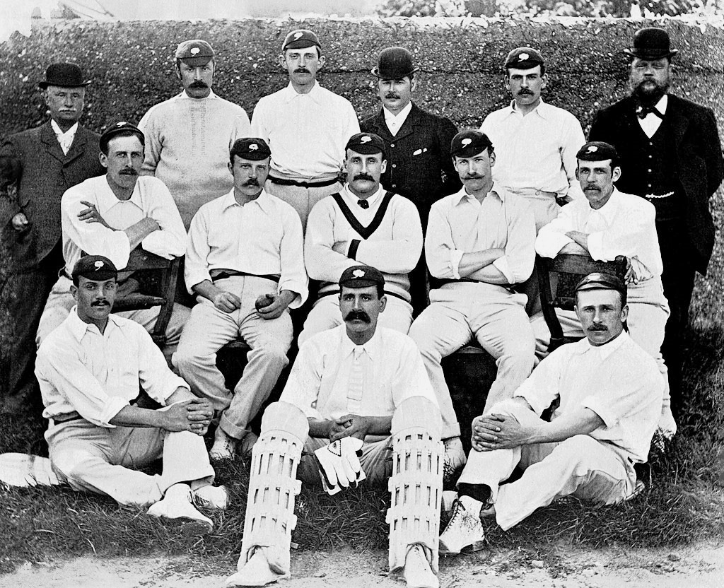 Sport, Cricket, Circa 1895, Yorkshire, Back row: L-R: Turner (scorer), Wardall, Whitehead, Mr, Dodworth, Mounsey, Draper (umpire), Middle row: L-R: Tunnicliffe, Peel, Lord Hawke, F,S, Jackson, Wainwright, Front Row: L-R: Brown, Hunter, Hirst